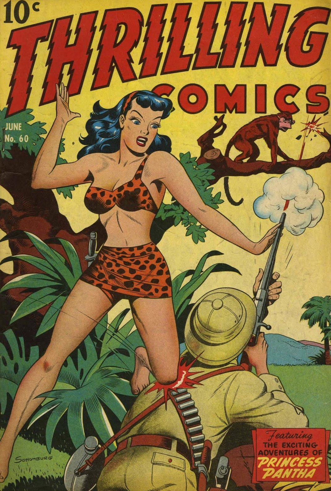 Princess Pantha, on the cover of Thrilling Comics #60 (June 1947), published by Nedor Comics.